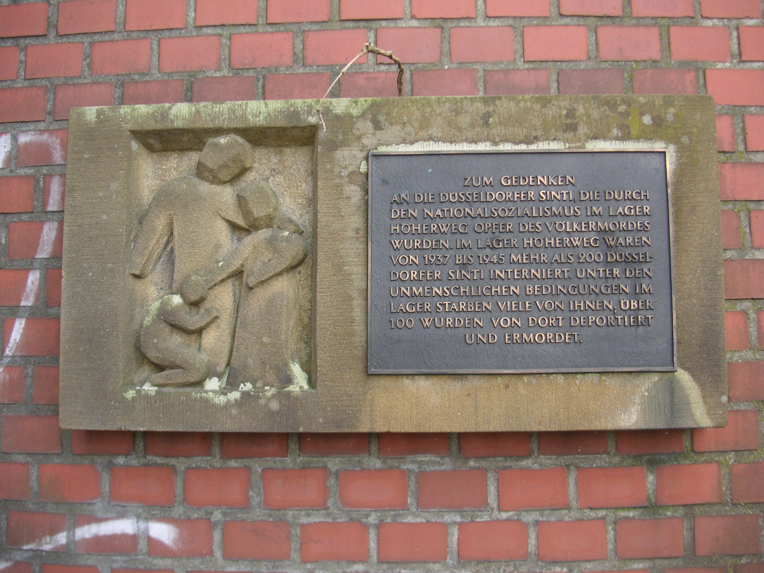 Düsseldorf-Lierenfeld, Germany, memorial plaque at Lager Höherweg. In memory of the Sinti of Düsseldorf against whom the Nazis committed ethnic murder in the Höherweg Camp. From 1937 to 1945 more than 200 Düsseldorf Sinti were interned in Höherweg. Many of them died of the inhuman conditions in the camp; over 100 were deported and murdered.